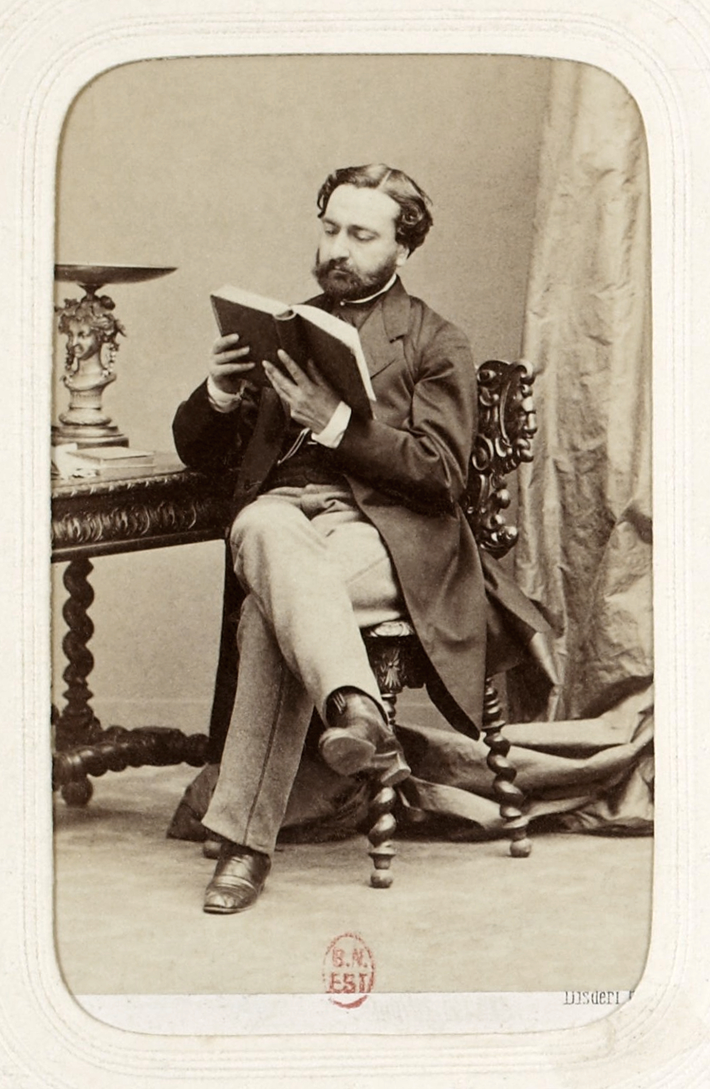 Clément Caraguel (1816 - 1882), french writer and journalist.